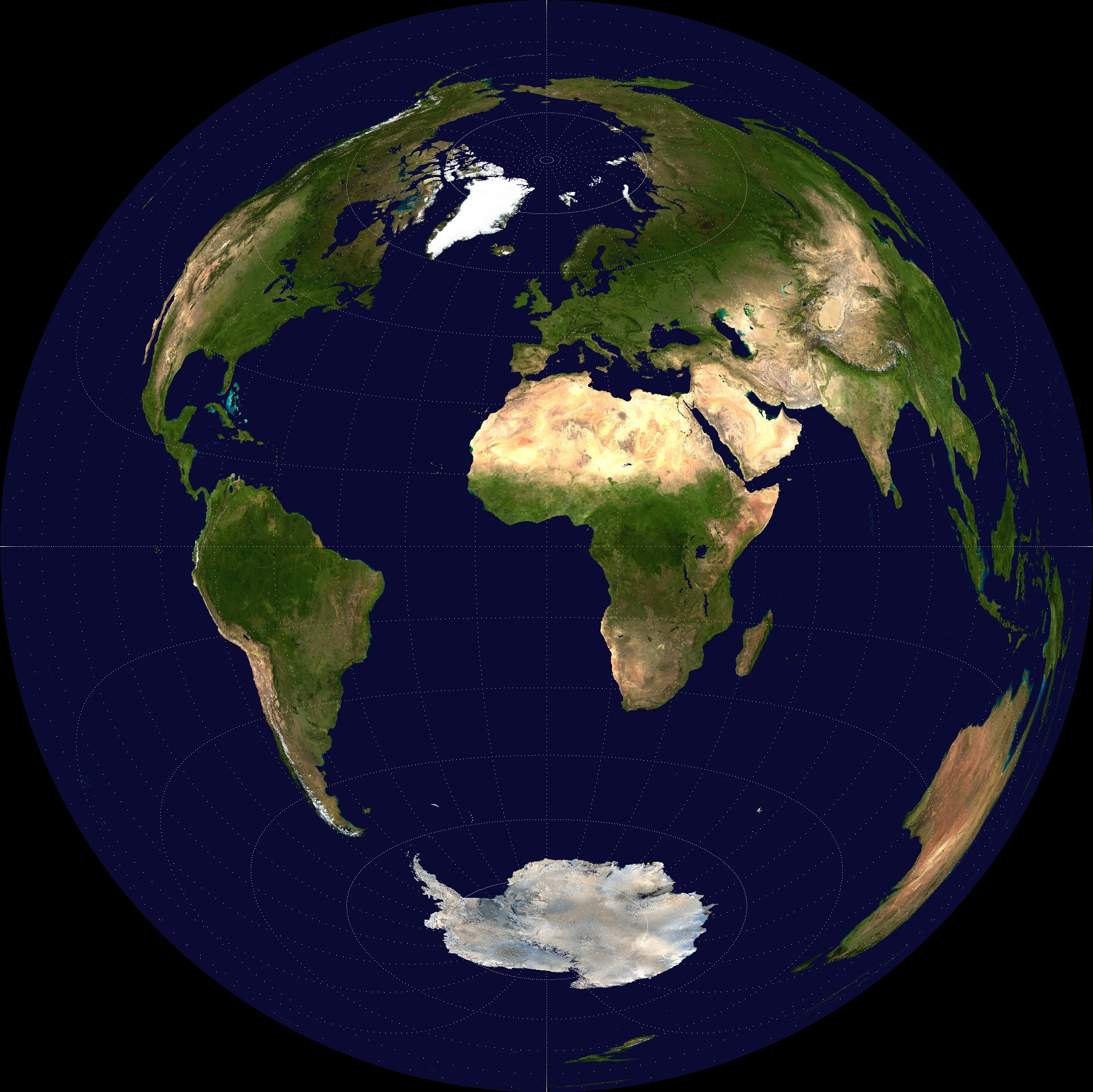 A Lambert azimuthal equal area projection of a Visible Earth image collected by the Earth Observatory experiment of the U.S. Government's NASA space agency. The reticle is 15 degrees in latitude and longitude.